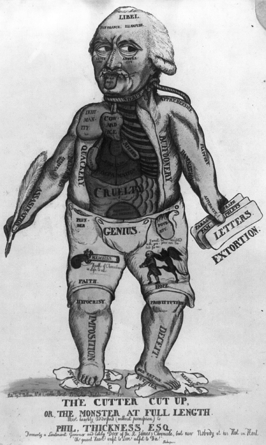 Caricature of British author and eccentric Philip Thicknesse (1719-1792) standing with a rope (labelled "Merit") round his neck, nude except for short breeches, trampling on "Moral Duties" and "Religious Duties". His person is covered with defamatory inscriptions. His chest is cut open, revealing organs labeled cowardice, cruelty, defamation, disease, etc. Black and white copy of a coloured etching. Caption: "The cutter cut up, or, the monster at full length. Most heartily addressed (without presumption) to Phil. Thickness, Esq. Formerly a Lieutenant Governor and lately Doer of the St. James's Chronicle, but now Nobody at his Hut in Kent. 'Oh! gravel Heart! unfit to Live! unfit to Die!' — Shakespere."